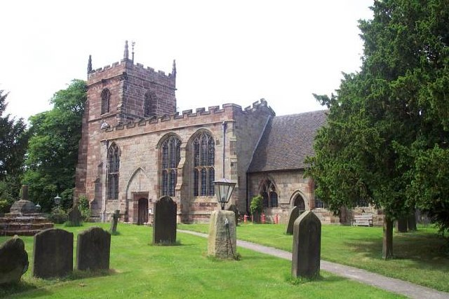 Parish church of St Mary and All Saints, Bradley, Staffordshire, seen from the southeast